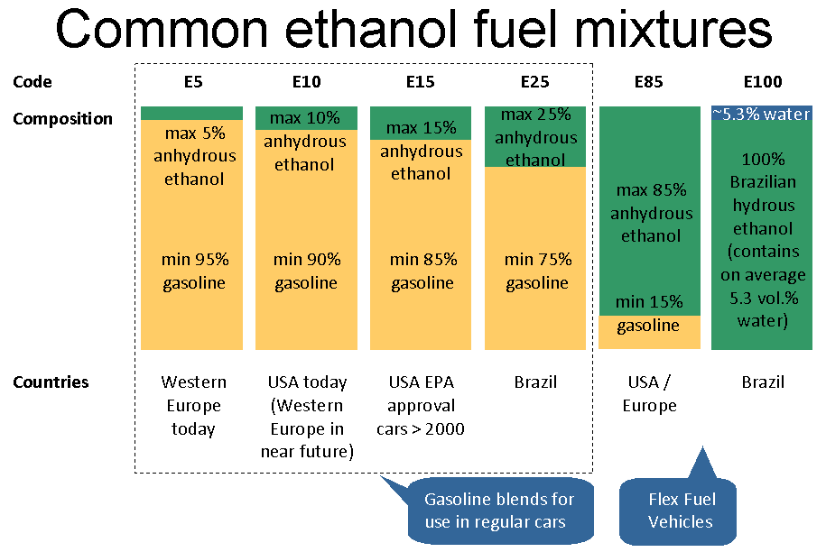 range of common ethanol fuel mixtures